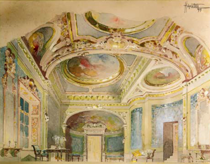 Set design for Act 2 of Puccini's opera Tosca (Palazzo Farnese)